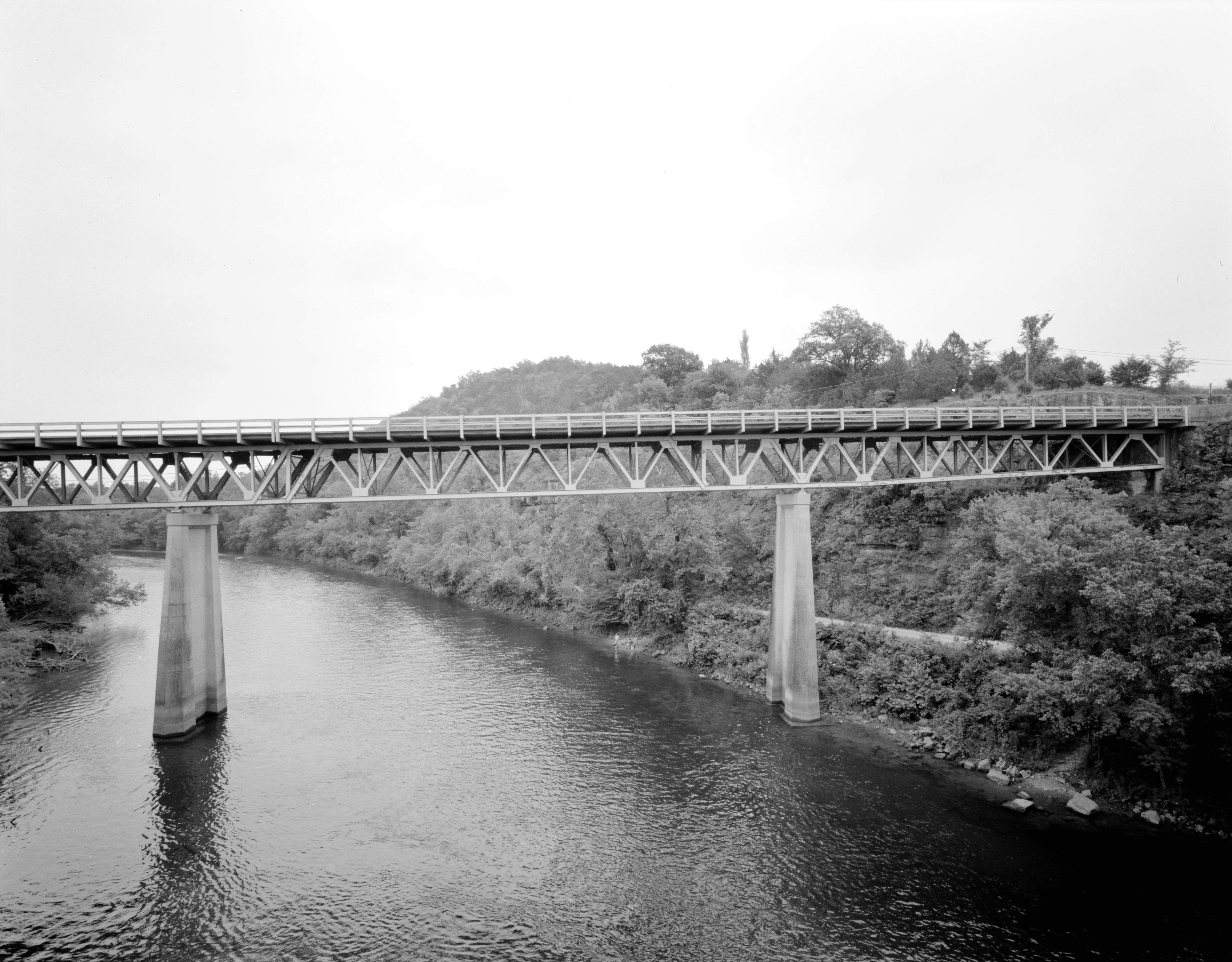 Western (downstream) side of the North Fork Bridge, which carries Highway 5 over the North Fork of the White River near Norfolk in Baxter County, Arkansas, United States. Built in 1937, this Warren deck truss bridge is listed on the National Register of Historic Places.